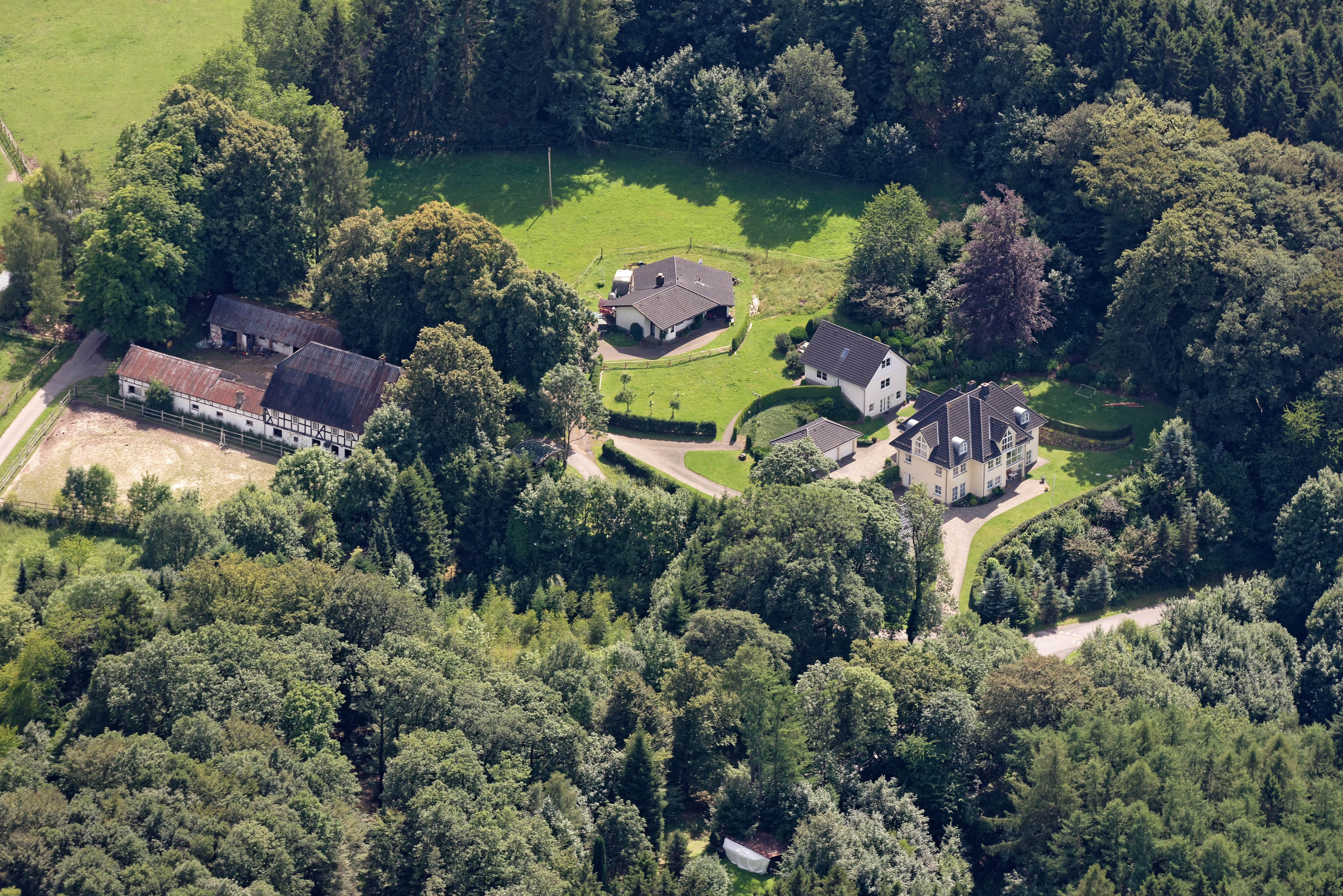 The making of this document was supported by the Community-Budget of Wikimedia Germany. Jäckelcken, Ortsteil von Attendorn